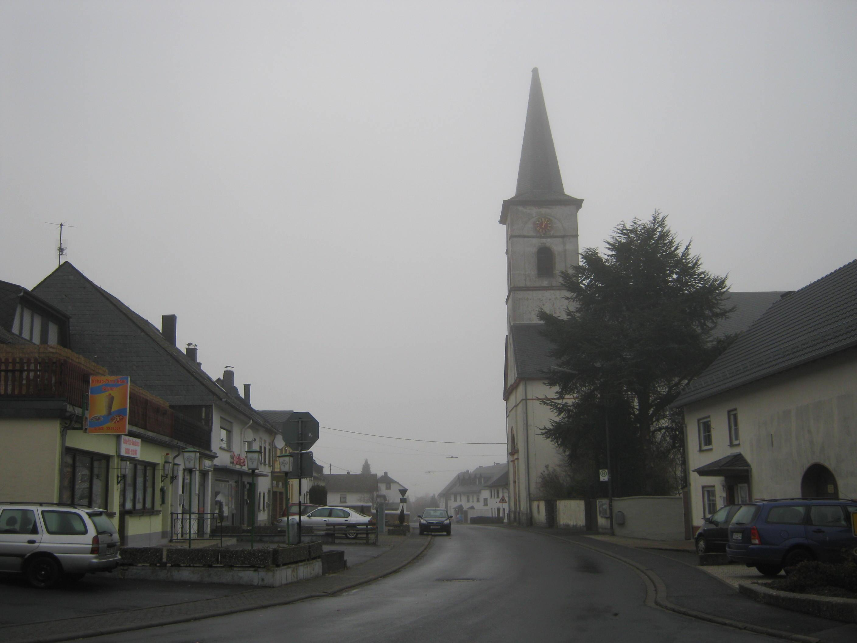 Beuren in the Hunsrück Area, Germany.